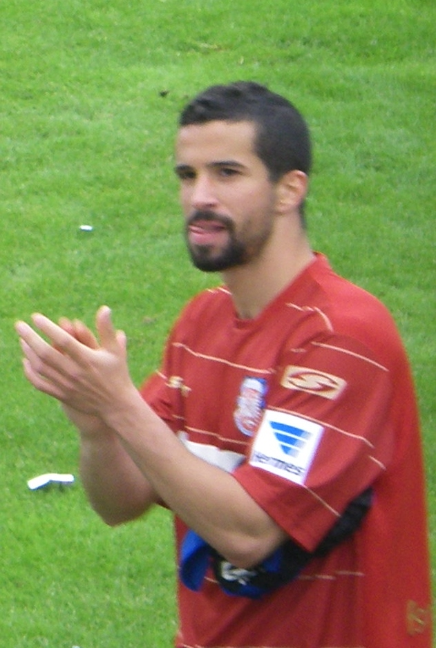 Soccer player Nils Teixeira is applauding to the audience after the last home match of his team FSV Frankfurt at the end of season 2012-13